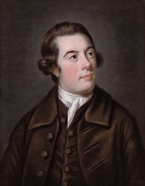 Portrait of a gentleman, traditionally identified as Edward 2nd Viscount Powerscourt, in a brown coat pastel 61 x 48.8 cm.